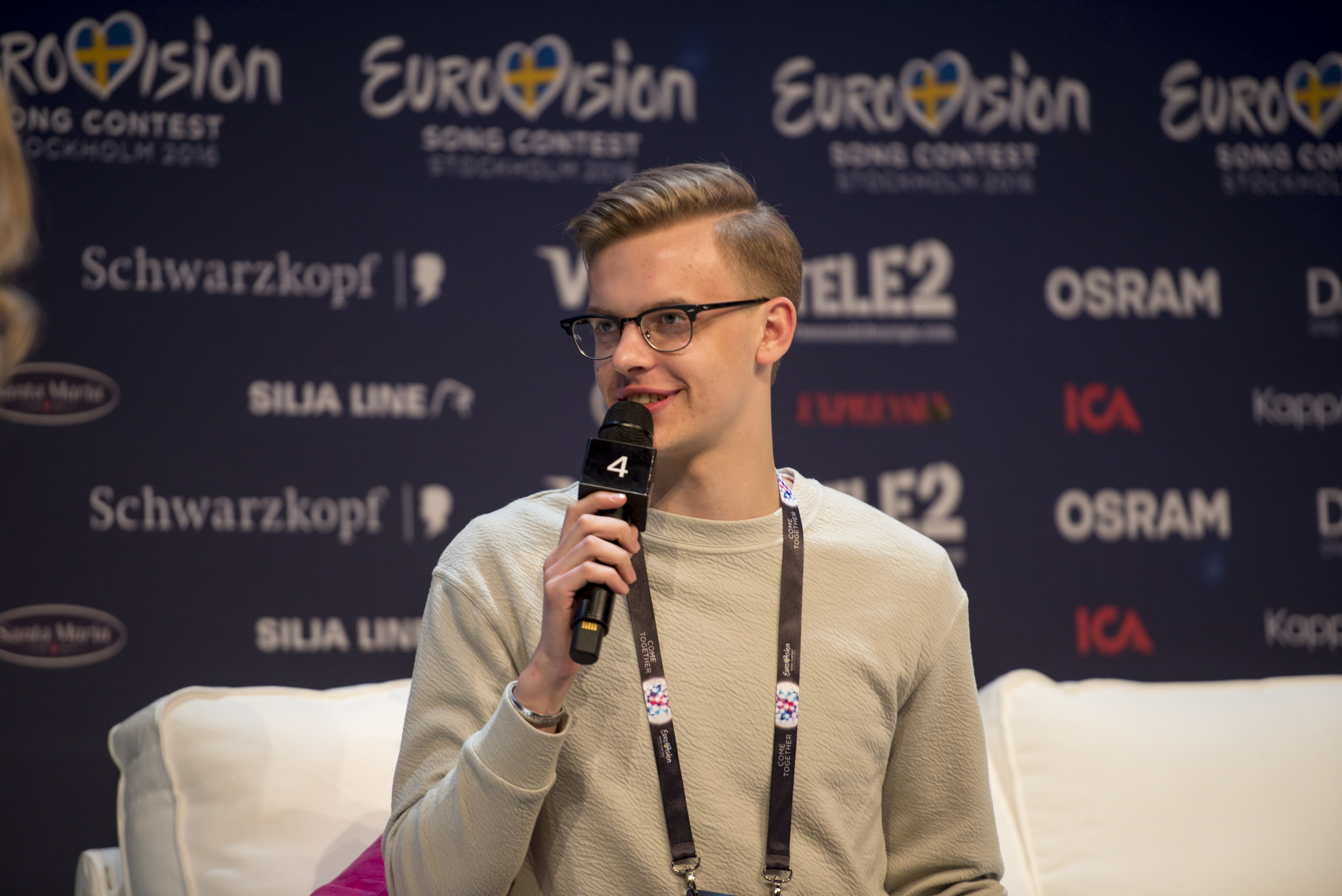 Jüri Pootsmann at a Meet & Greet during the Eurovision Song Contest 2016 in Stockholm. (Help translate this text)